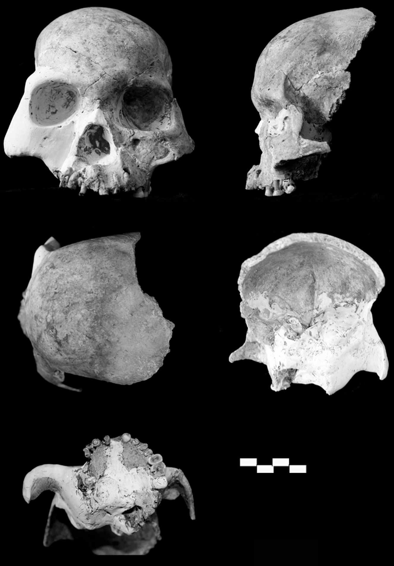 Longlin 1 partial skull (each bar = 1 cm) found in Longlin Cave in the Guangxi Zhuang region of China